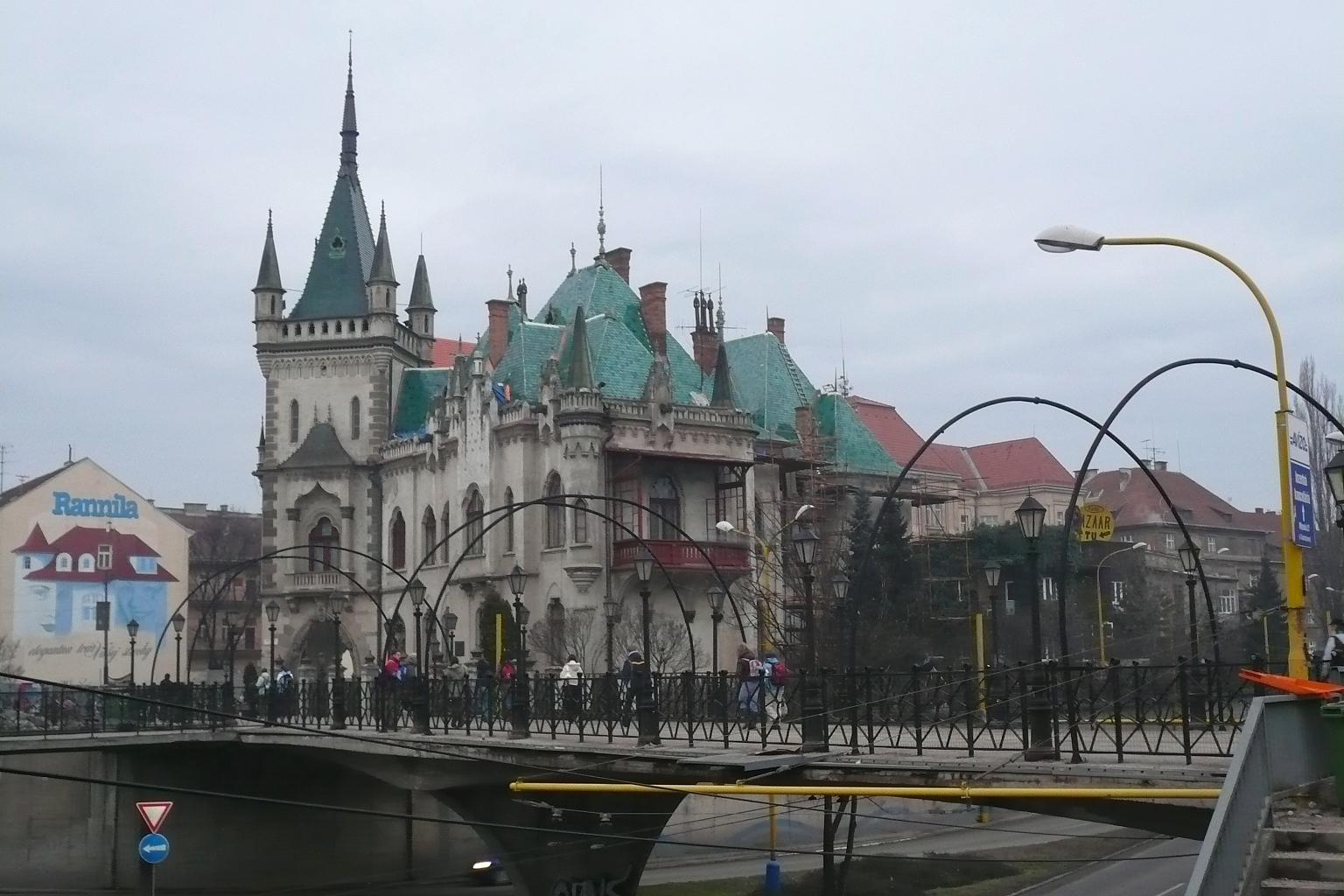 zastavka v KE smerom na ukrajinsku hranicu This medium shows the protected monument with the number 802-3504/1 in the Slovak Republic.